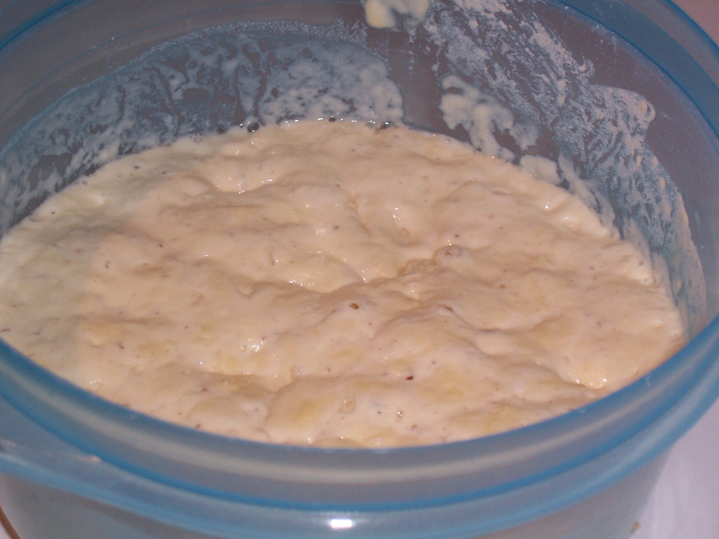 Poolish (Bread preparation).